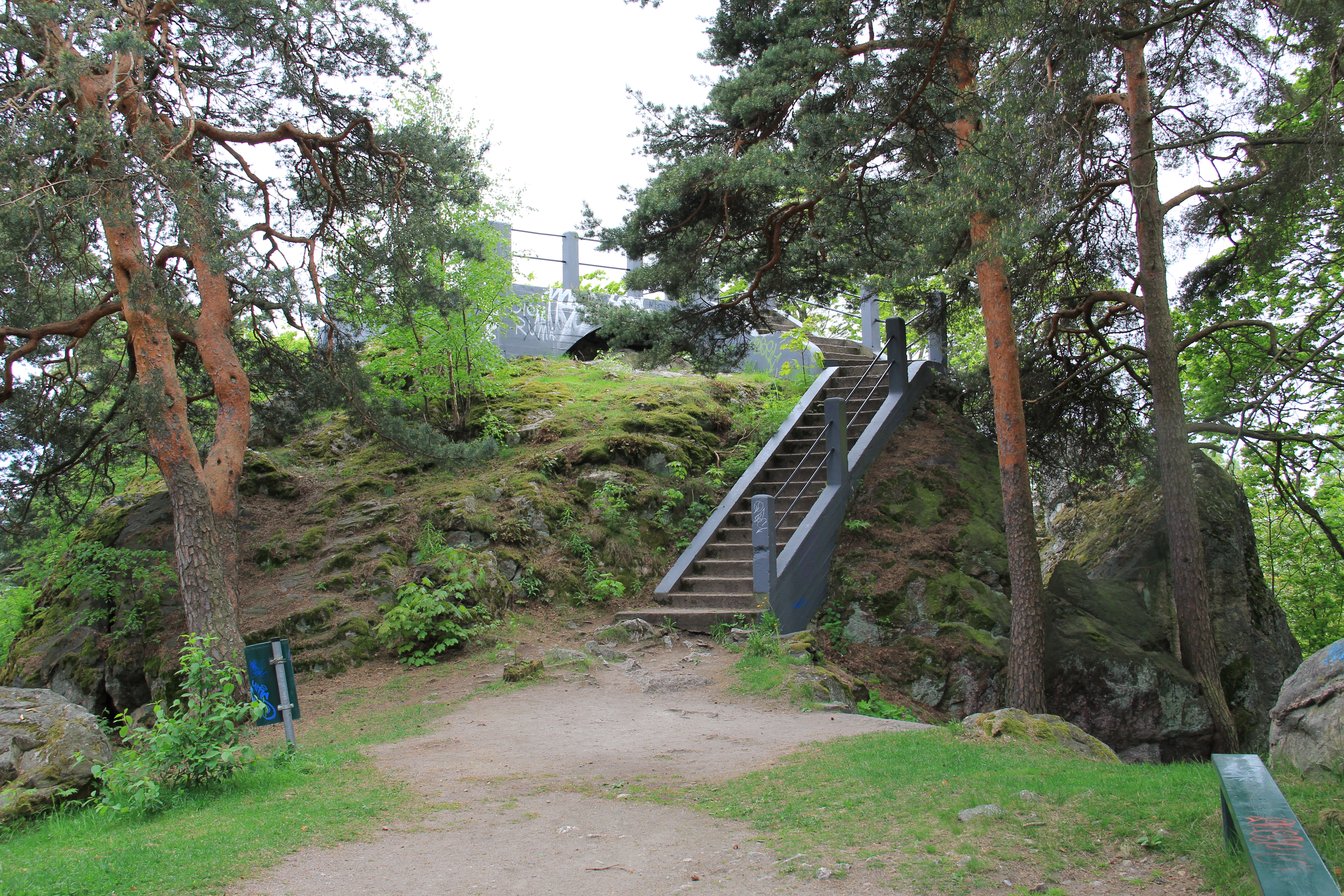 Näsi glacial erratic (cracked), Porvoo, Finland. - A sightseeing platform